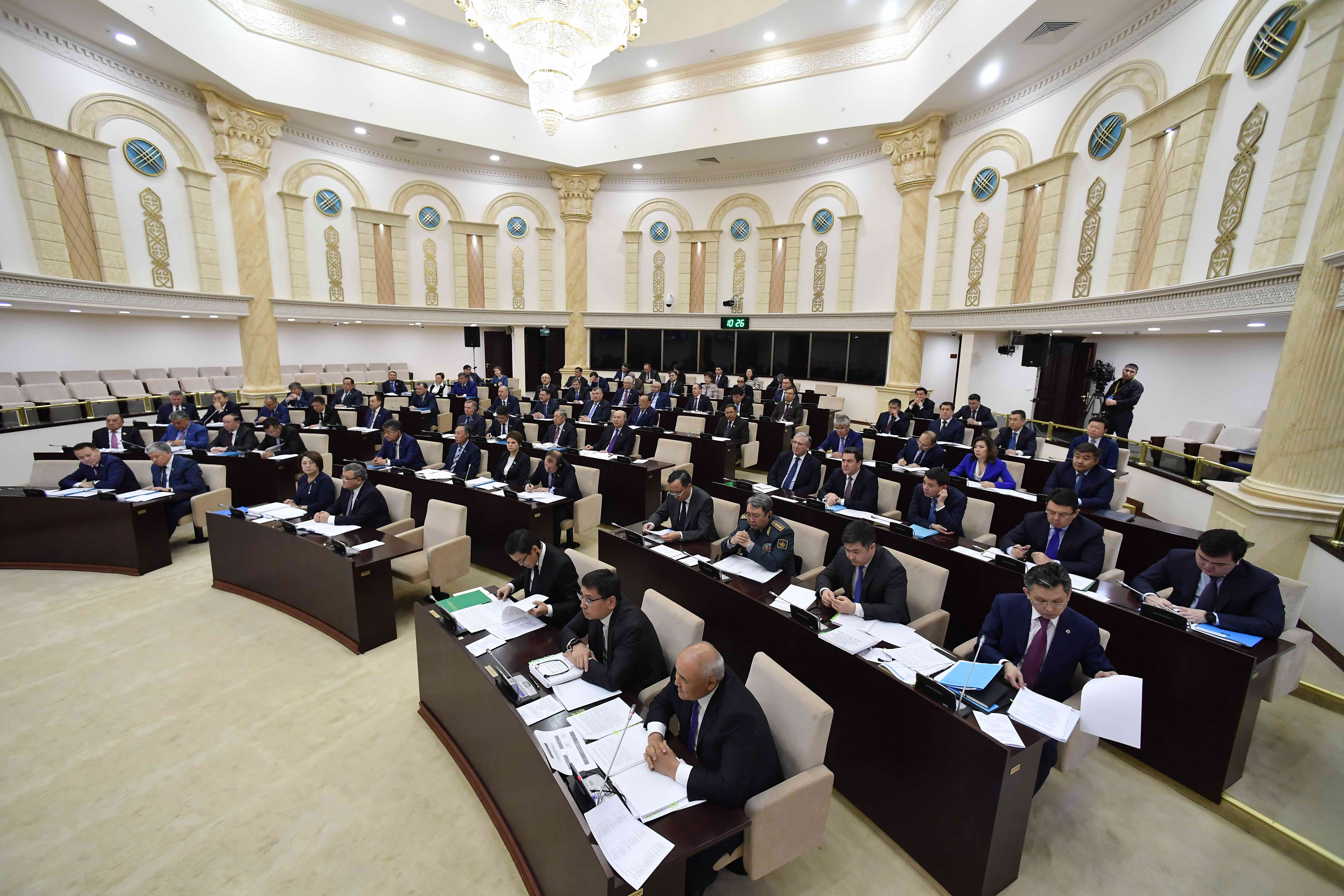 Kazakhstan Senate 2018-04-26